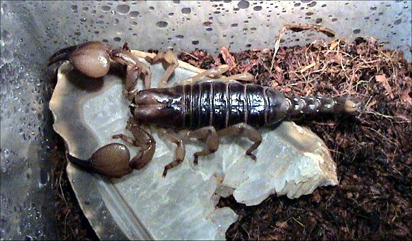 Tri-colored Scorpion, Opistophthalmus glabrifrons